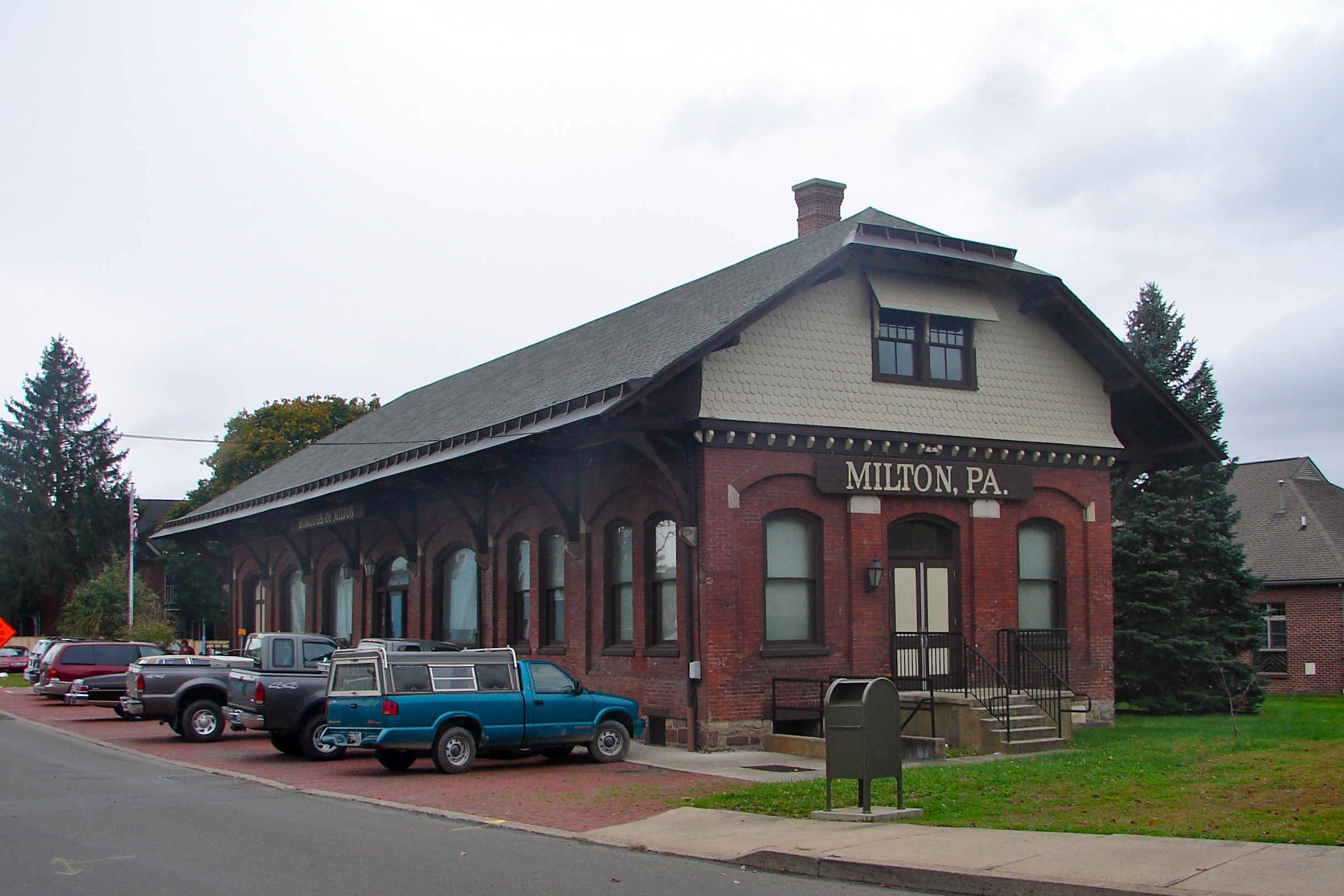 Milton Freight Station on the NRHP since April 13, 1977. At 90 Broadway, Milton, Pennsylvania. See also Lewisburg Frieght Depot PA.jpg a very similar building in a nearby town also on the NRHP